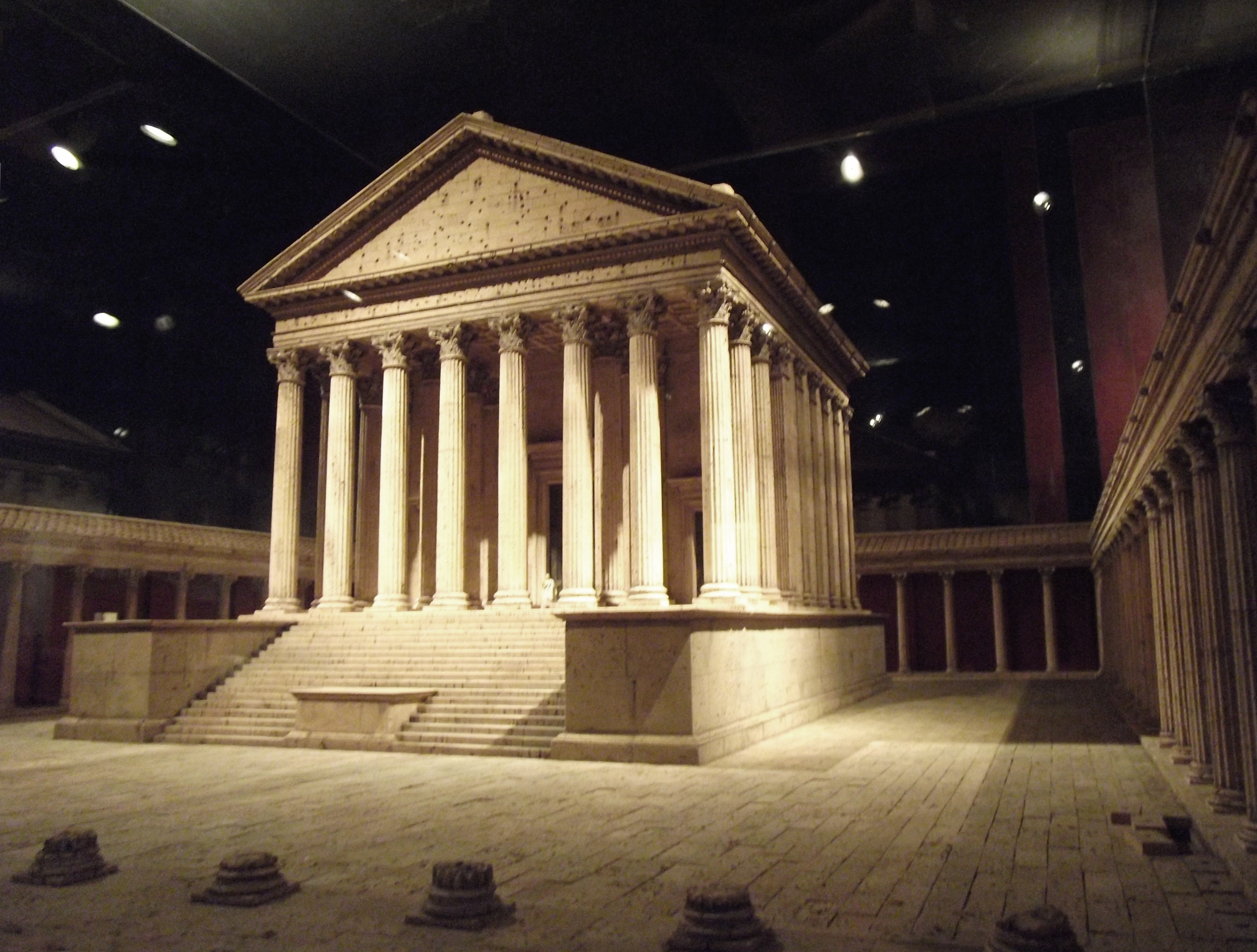 Front-side view of a model of the Cologne Capitol at Cologne Archaeological Zone, model built by Atelier Dieter Cöllen GmbH (2008) The Temple of the Capitoline Trias has been erected in the south-eastern corner of the city - likely under the emperors Trajan (98-117) or Hadrian (117-138). The foundations of the temple are mostly preserved under the later Romanesque church of St. Maria im Kapitol.